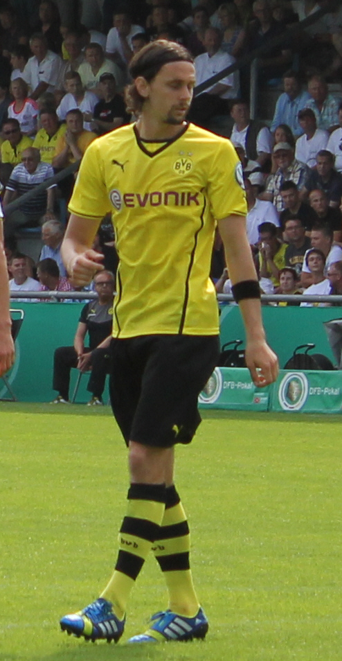 Neven Subotić 2013 in Wilhelmshaven